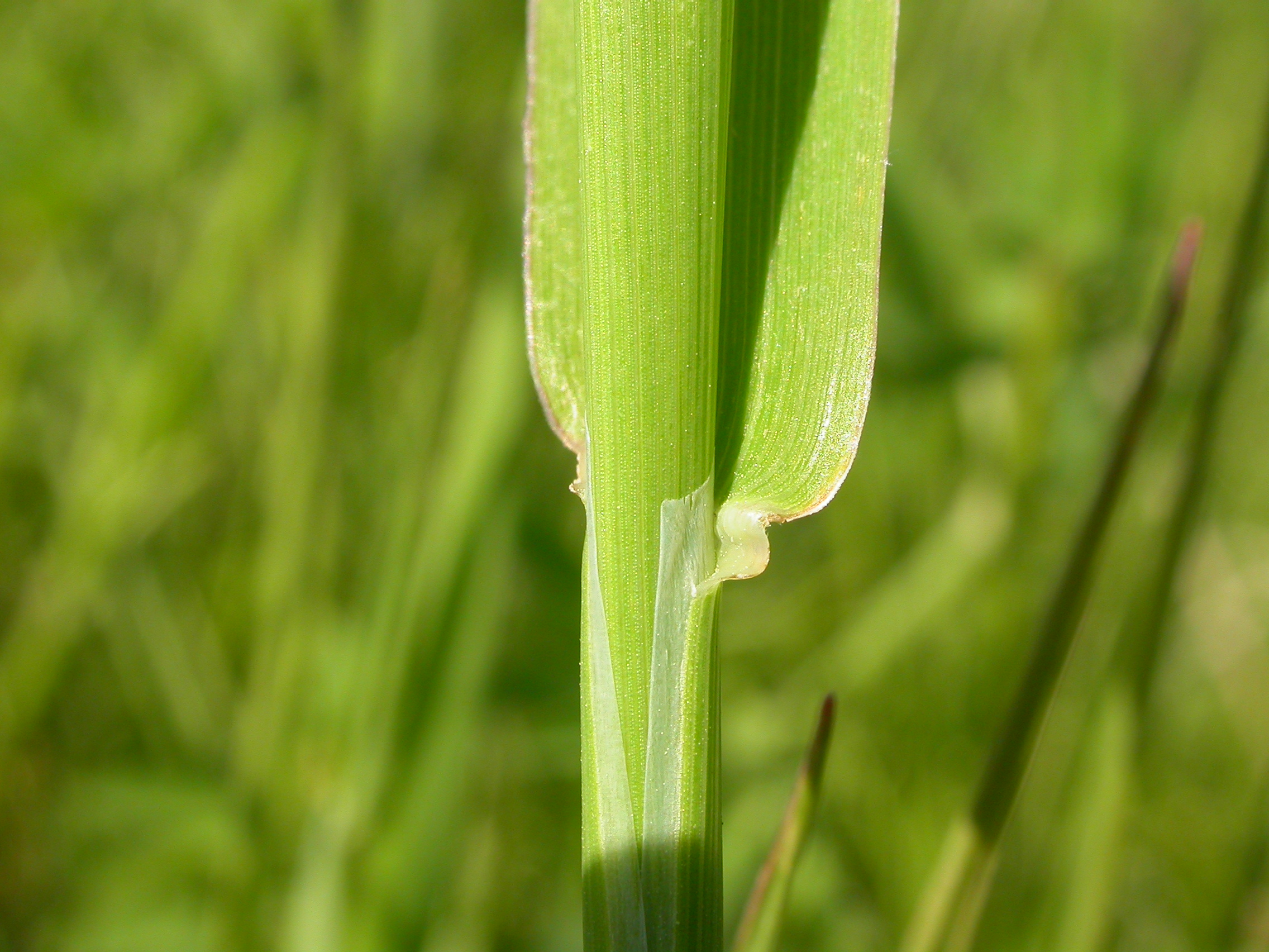 The ligule is well developed and conspicuous from most angles.